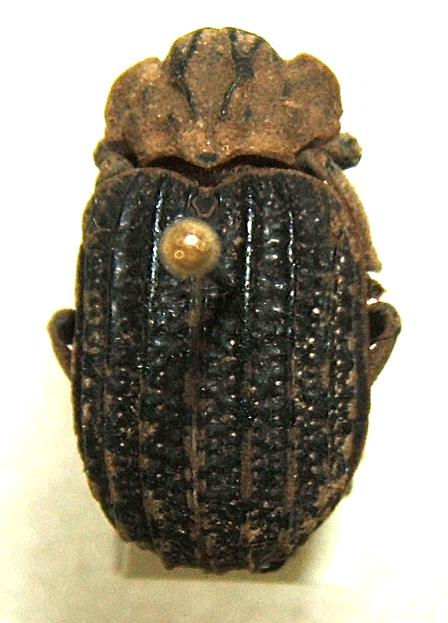 Omorgus carinatus adult taken by Shawn Hanrahan at the Texas A&M University Insect Collection in College Station, Texas (This version was cropped, level enhanced and sharpened (unsharp mask) from Omorgus carinatus sjh.jpg.)